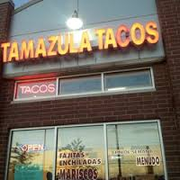 Mexican Resturant in Amigo Plaza